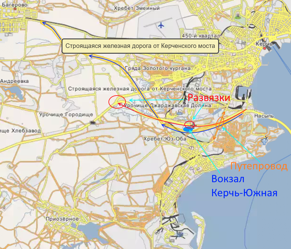 Link of roads to Kerch city from the Kerch Bridge